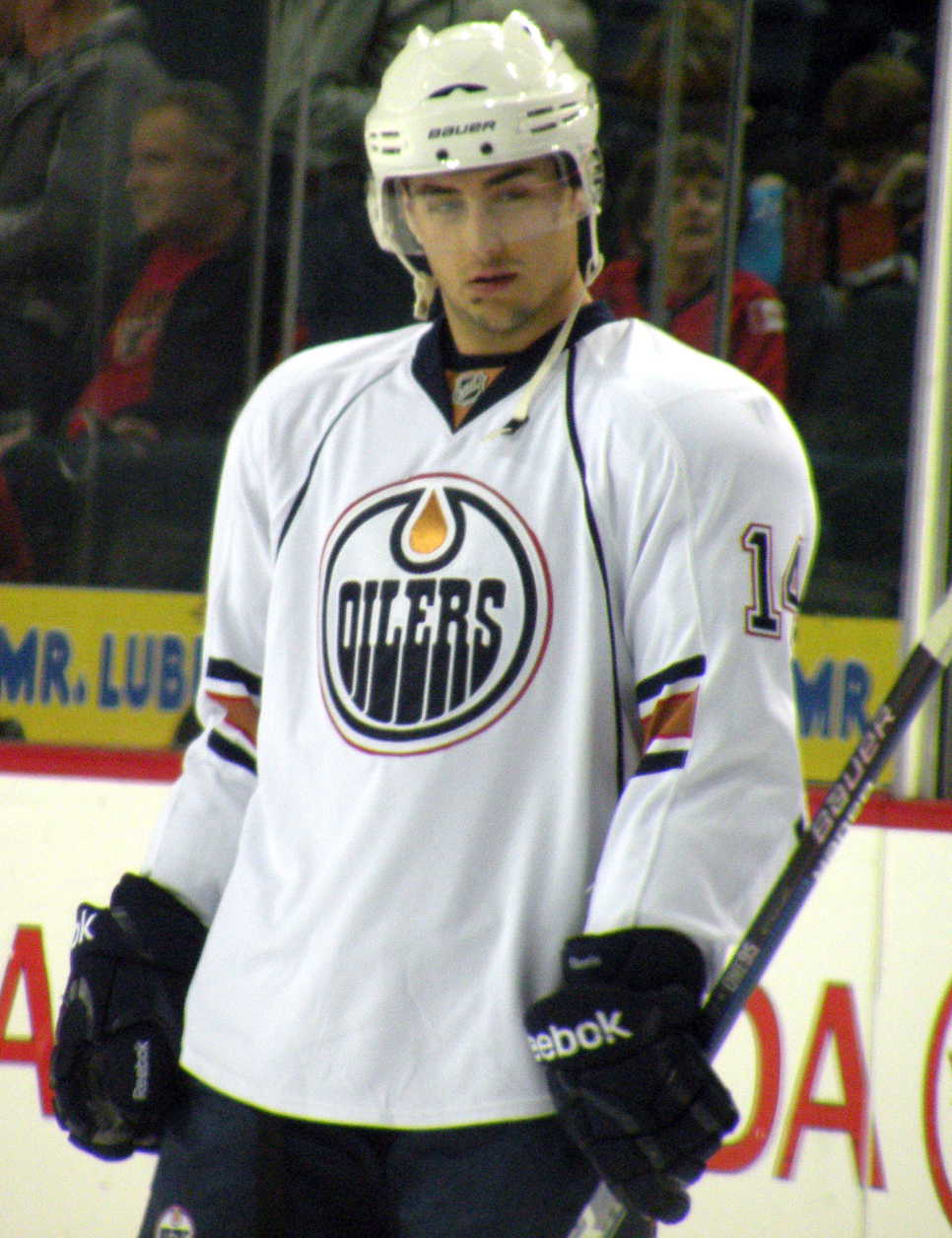 Edmonton Oilers forward Jordan Eberle prior to a National Hockey League game against the Calgary Flames.